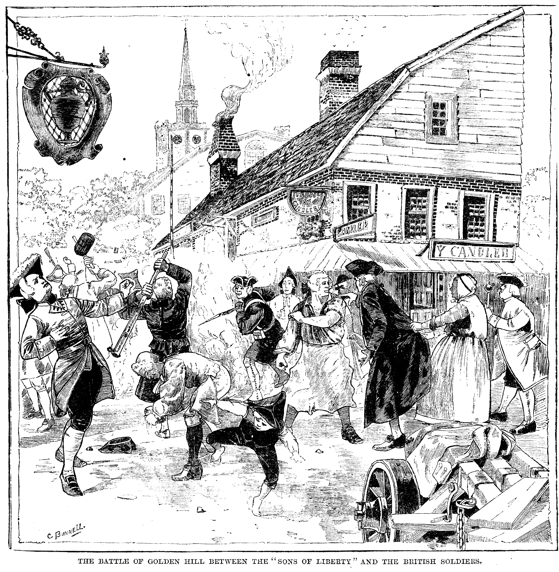 This is a 19th century print commemorating the Battle of Golden Hill